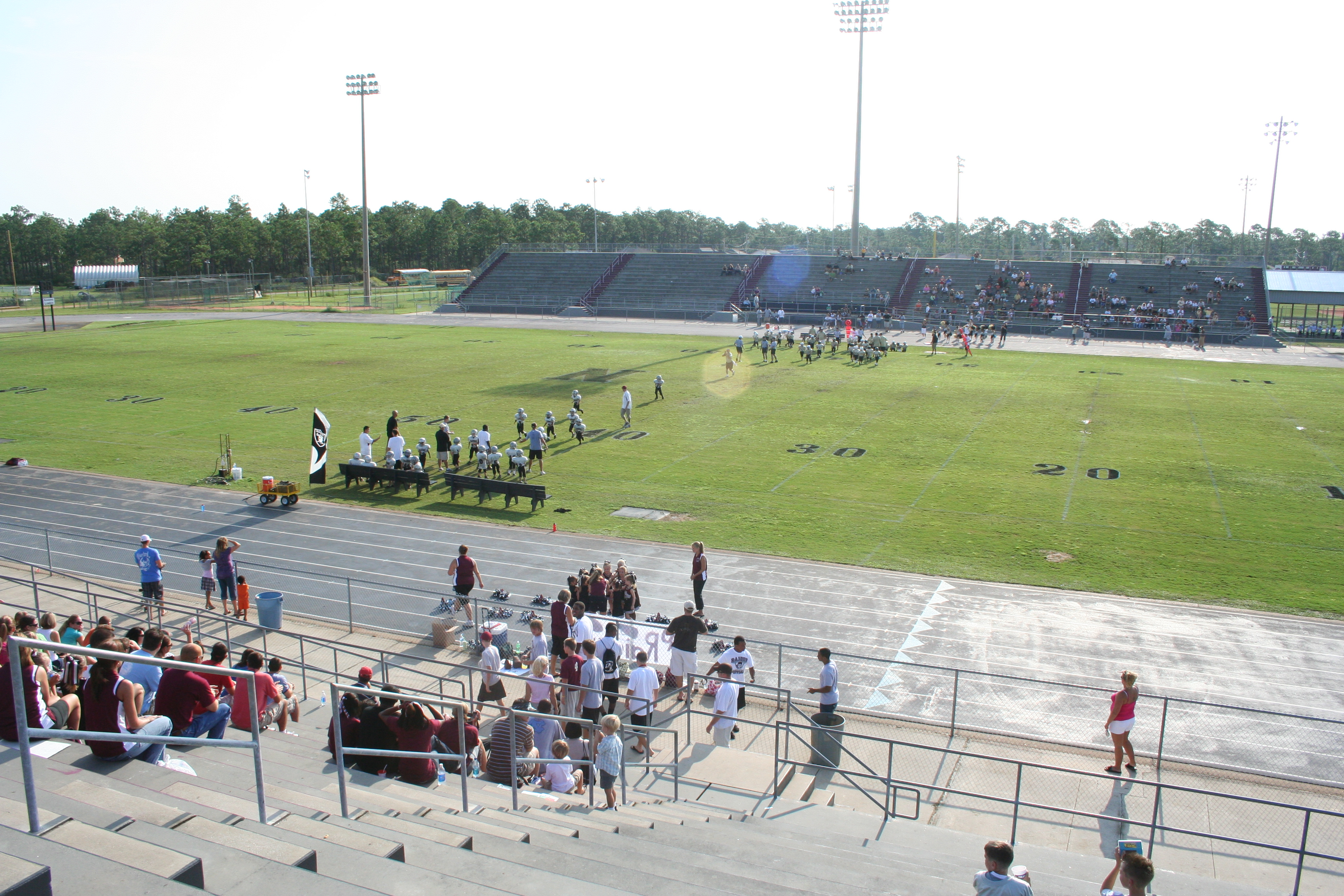 Navarre High School Fooball Field